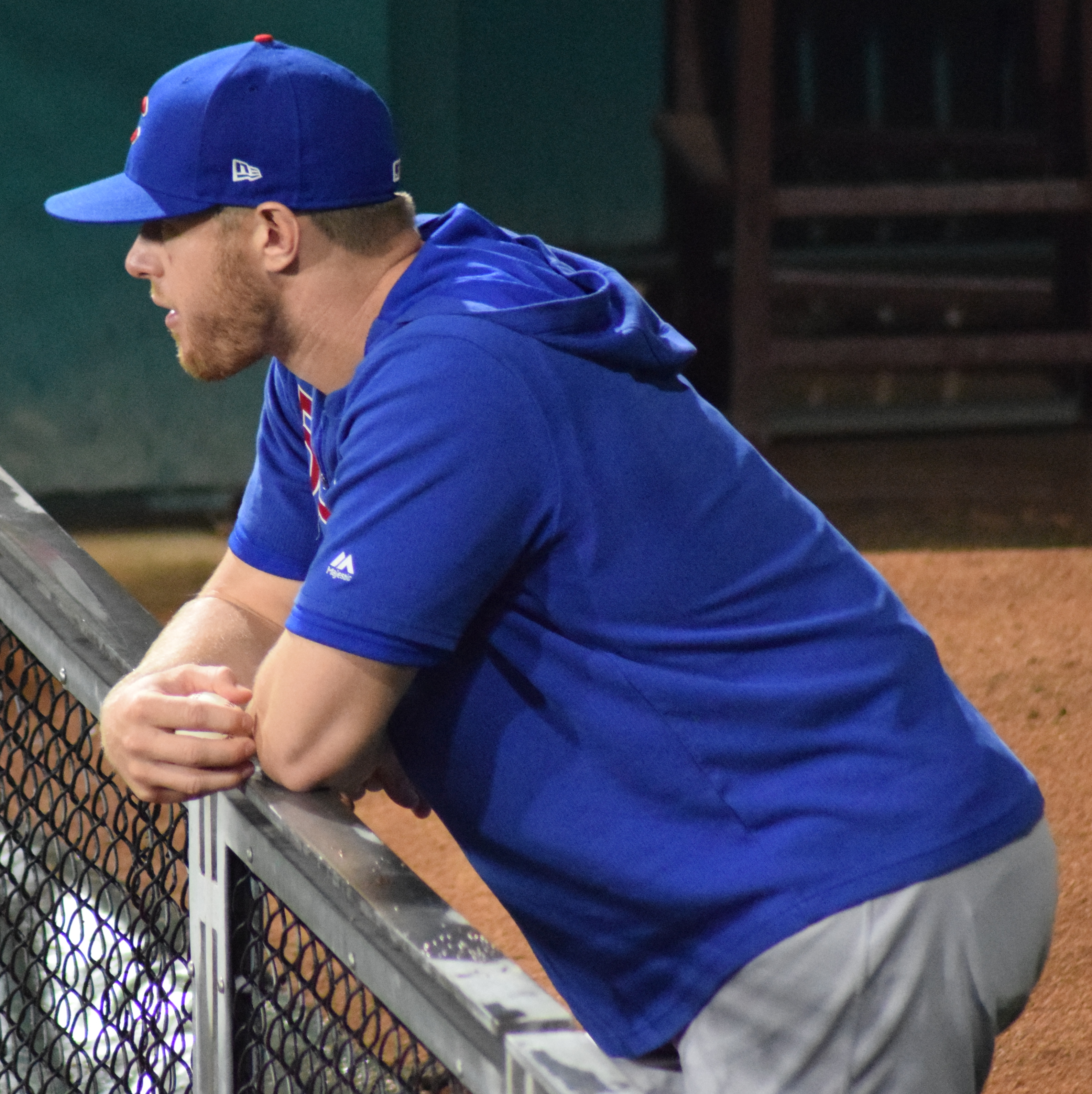 Rowan Wick with the Chicago Cubs in the bullpen during a 2019 game at Citizens Bank Park.